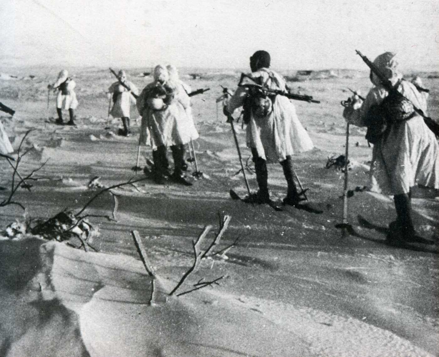 Imperial Japanese Army ski troops on maneuveurs in Chishima Islands (Kuril Islands)